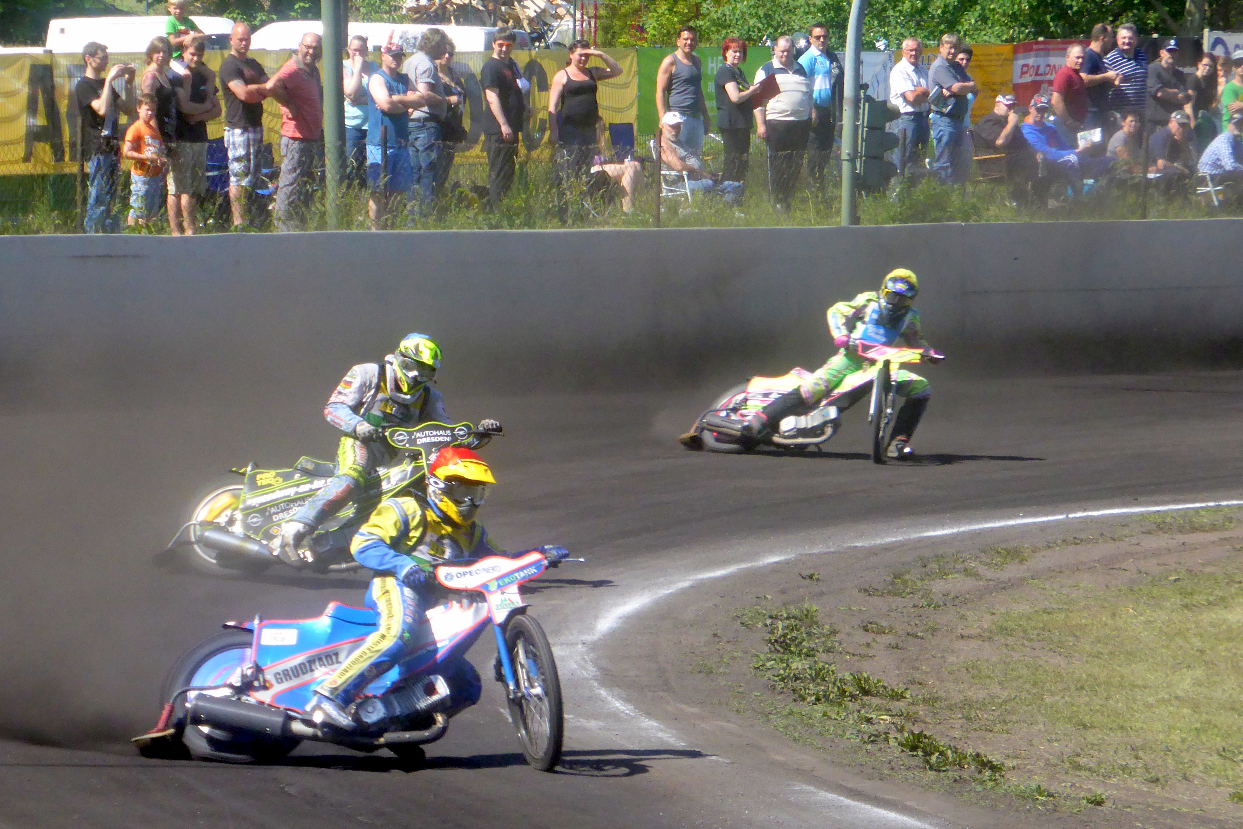 German Speedway Bundesliga. Wolfslake Falubaz Berlin vs Nordstern Stralsund in Wolkfslake.